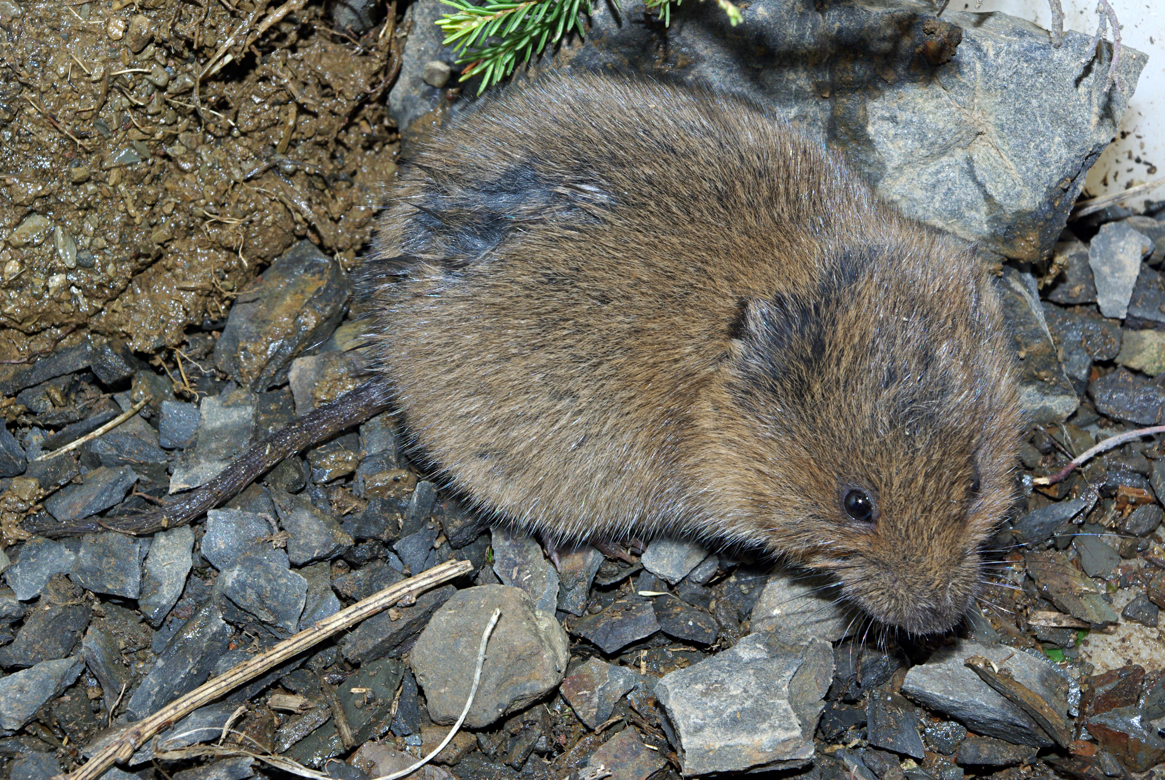 Field vole (Microtus agretis). River Arauz, Palencia (Spain).